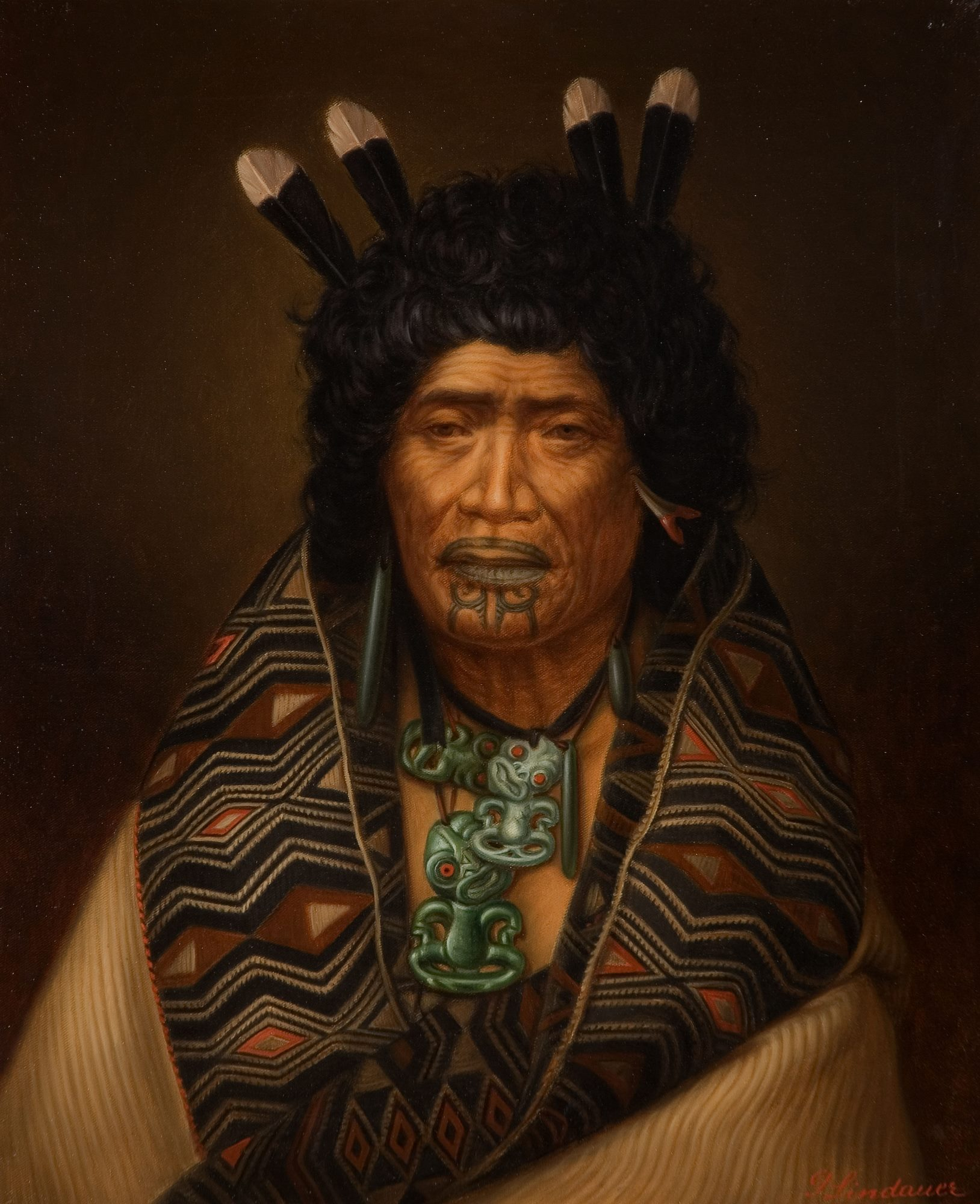 Portrait of Rangi Topeora, by Gottfried Lindauer.